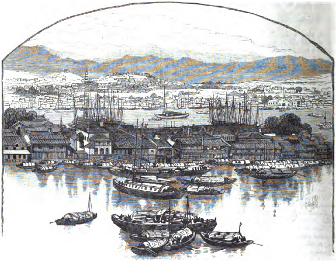 View of Foochow from Princess's Grave